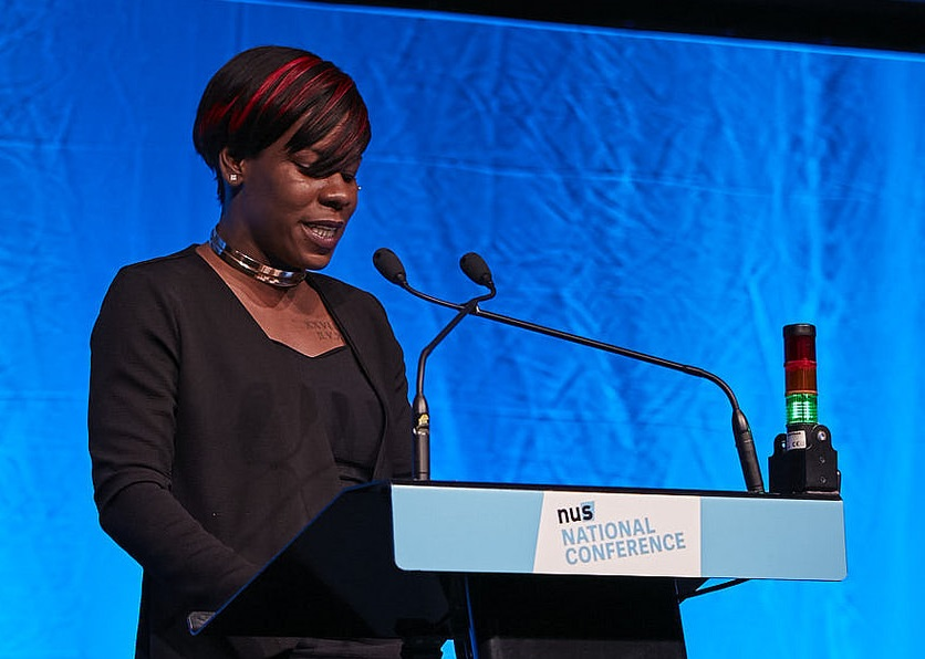 NUS UK President Shakira Martin delivers speech